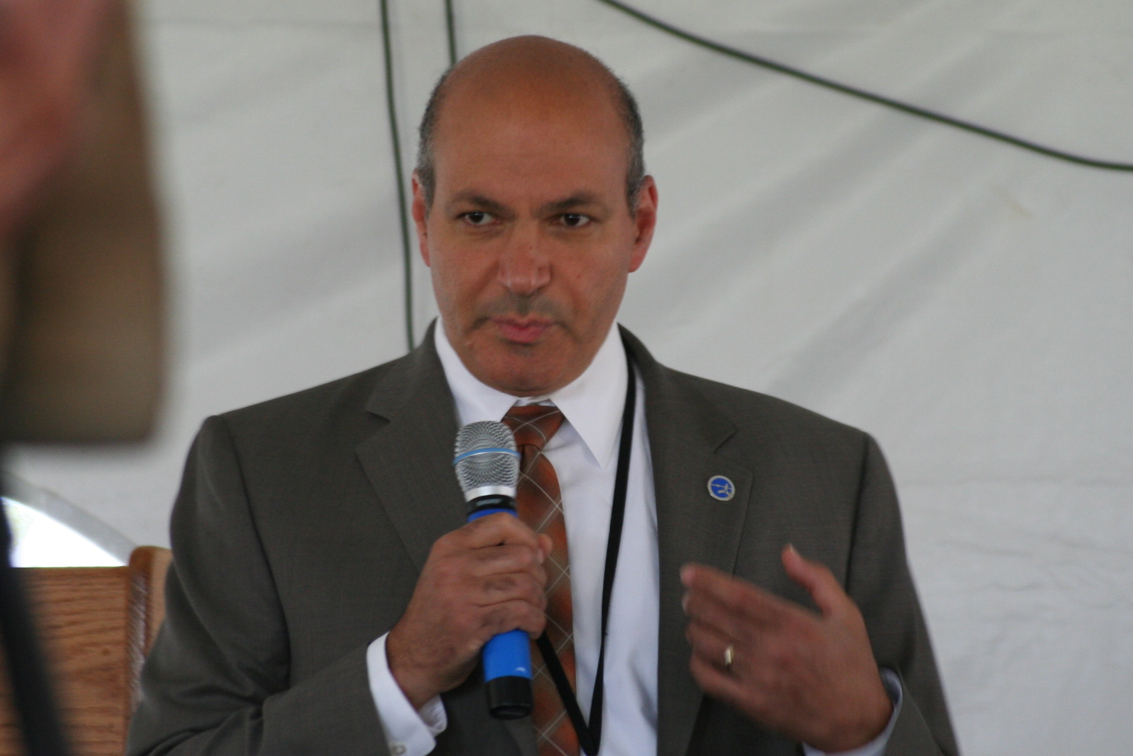 Dr. Waleed Abdalati speaking at the Juno Tweetup at the Kennedy Space Center